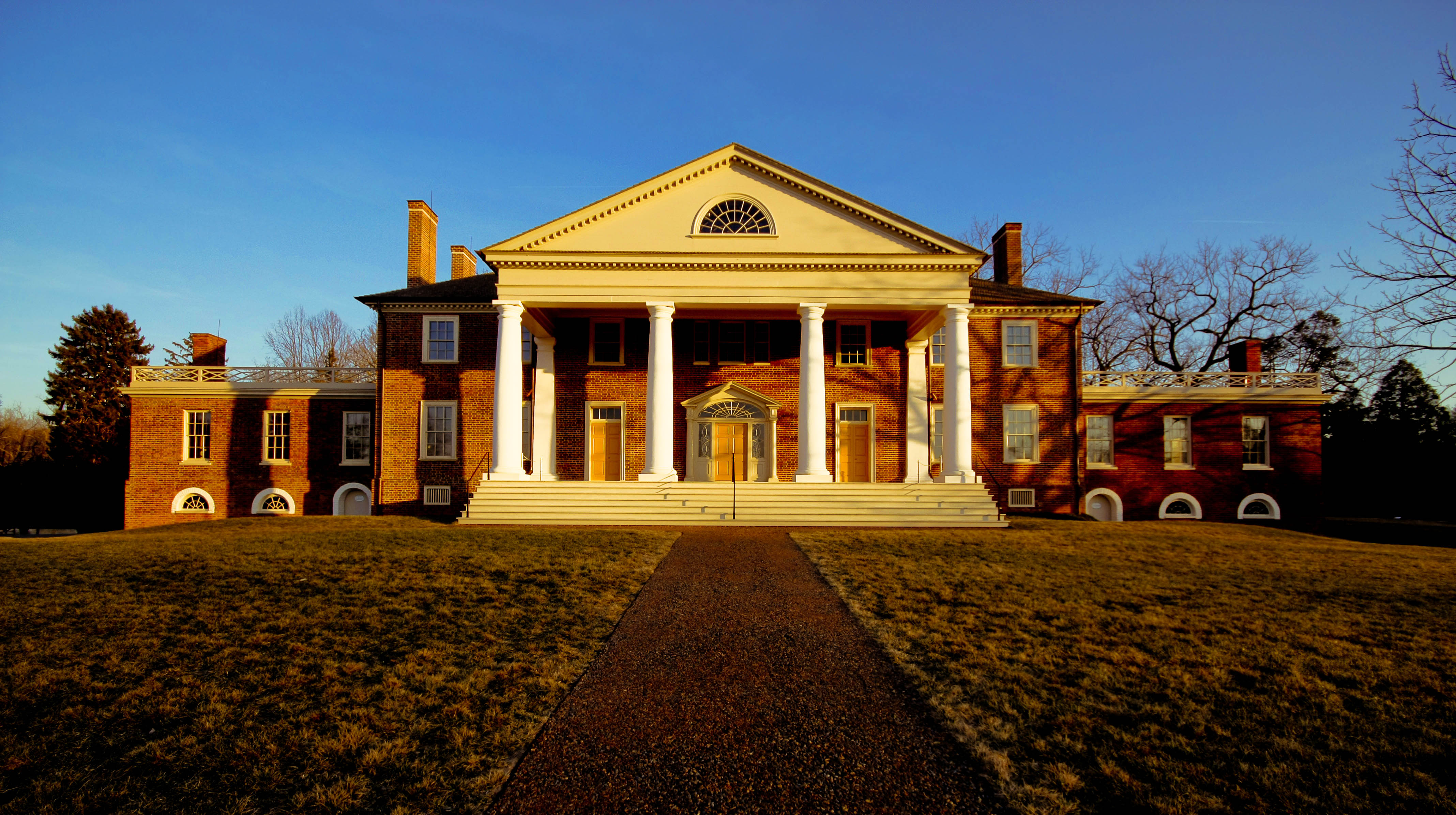 Montpelier